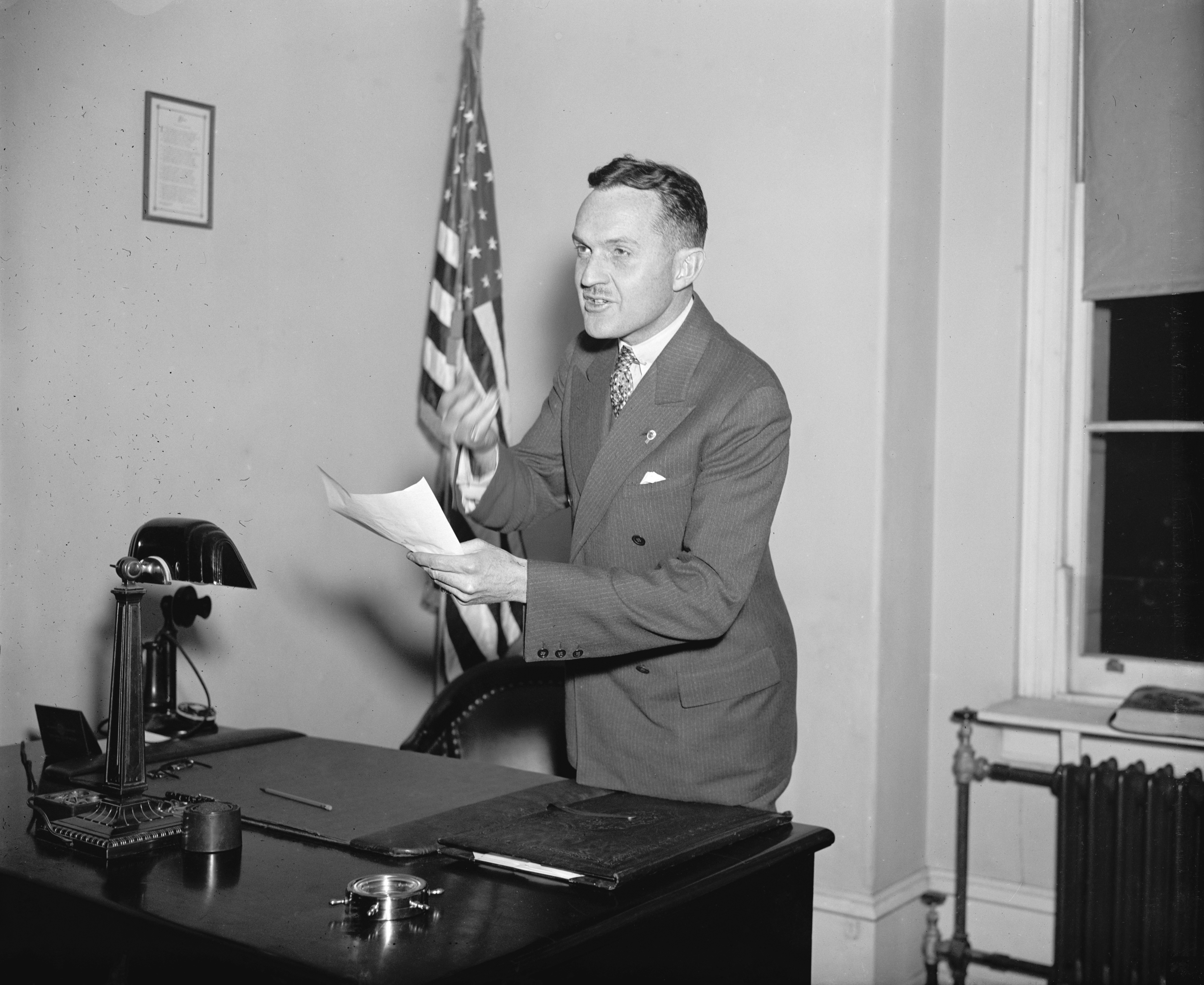 New House member from Connecticut. Washington, D.C., Dec. 16. A new Democratic member of the House from Connecticut, Alfred N. Phillips, who arrived in Washington today.